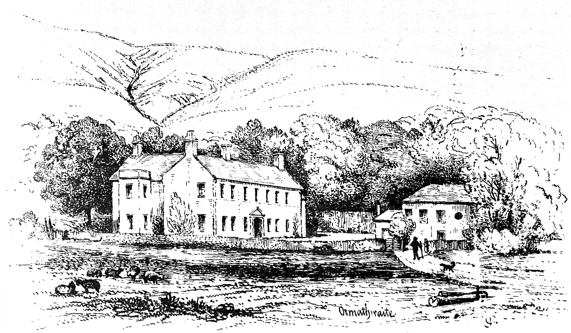 Orthmathwaite the residence of W. Brownrigg Wellcome Images Keywords: William Brownrigg